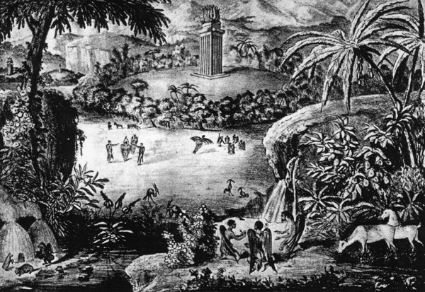 1835 The New York Sun perpetrated The Great Moon Hoax. The articles were falsely attributed to Sir John Herschel (1792 - 1871), perhaps the best-known astronomer of his day (and nephew of Caroline Herschel). The headline read: GREAT ASTRONOMICAL DISCOVERIES LATELY MADEBY SIR JOHN HERSCHEL, L.L.D. F.R.S. &c. At the Cape of Good Hope.